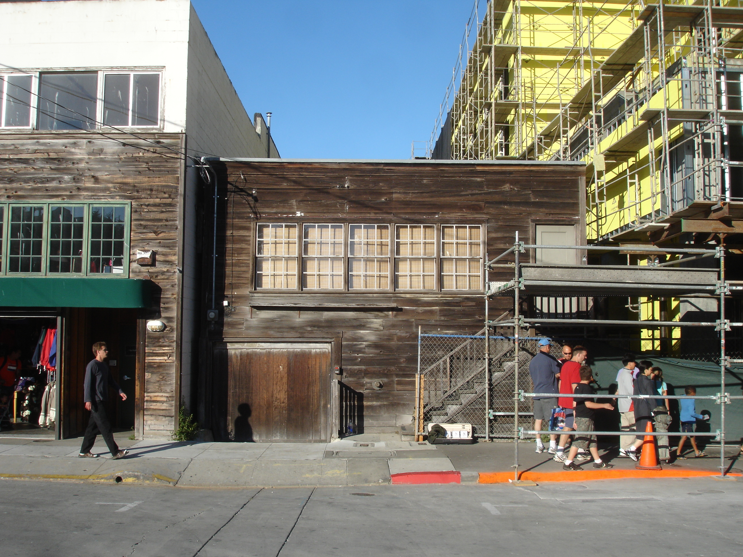 Ed Ricketts' lab, historically the Pacific Biological Laboratories, at 800 Cannery Row in Monterey, California, United States, was featured in John Steinbeck's work. It is listed on the US National Register of Historic Places.